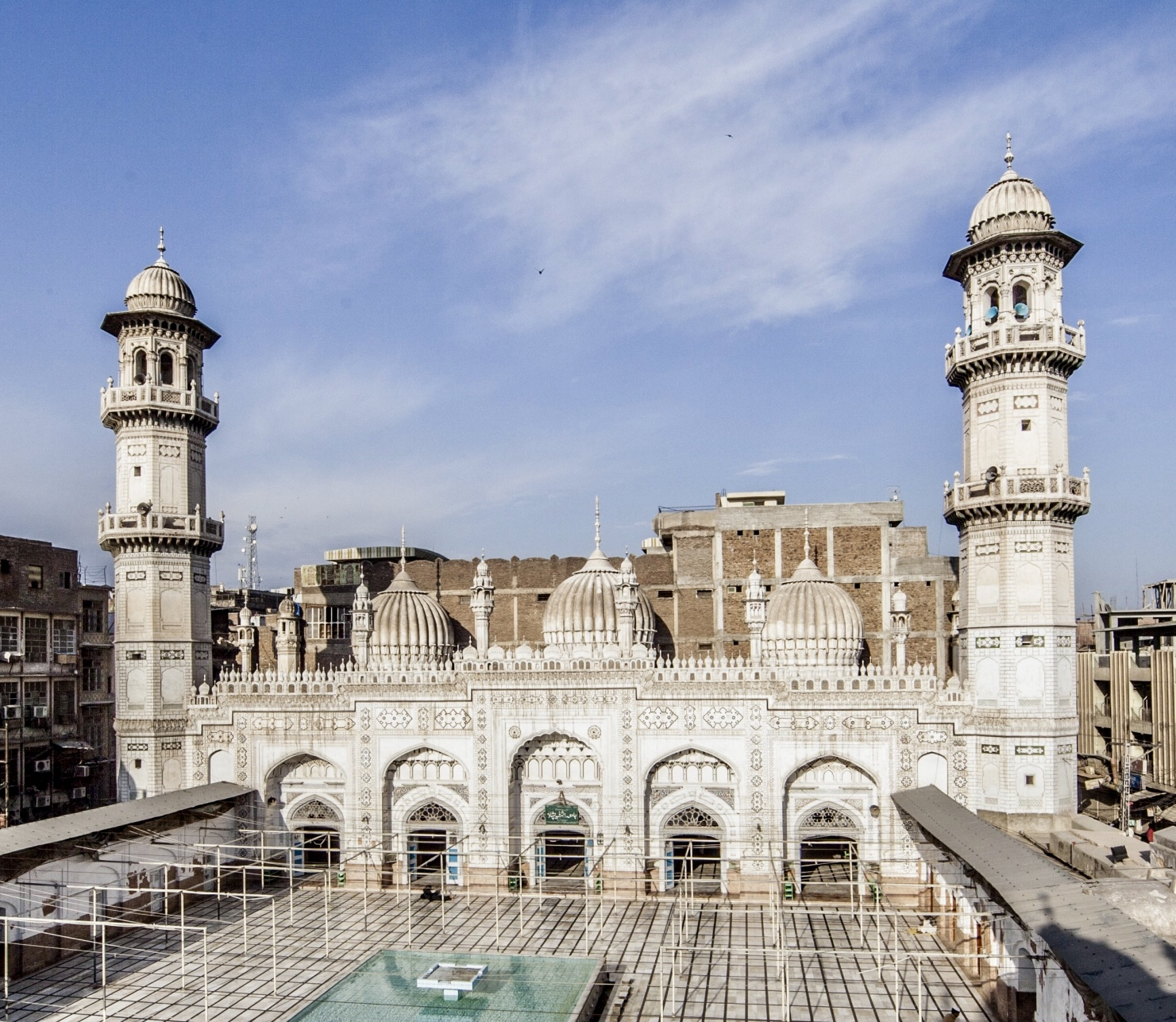 An image of the Mohabbat Khan Mosque. Derived work from